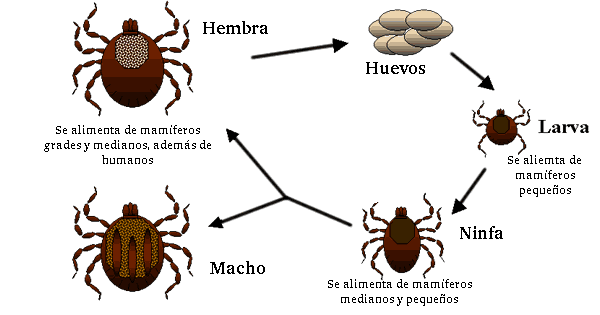 Life cycle Diagram of ticks family Ixodidae. Labels in Spanish